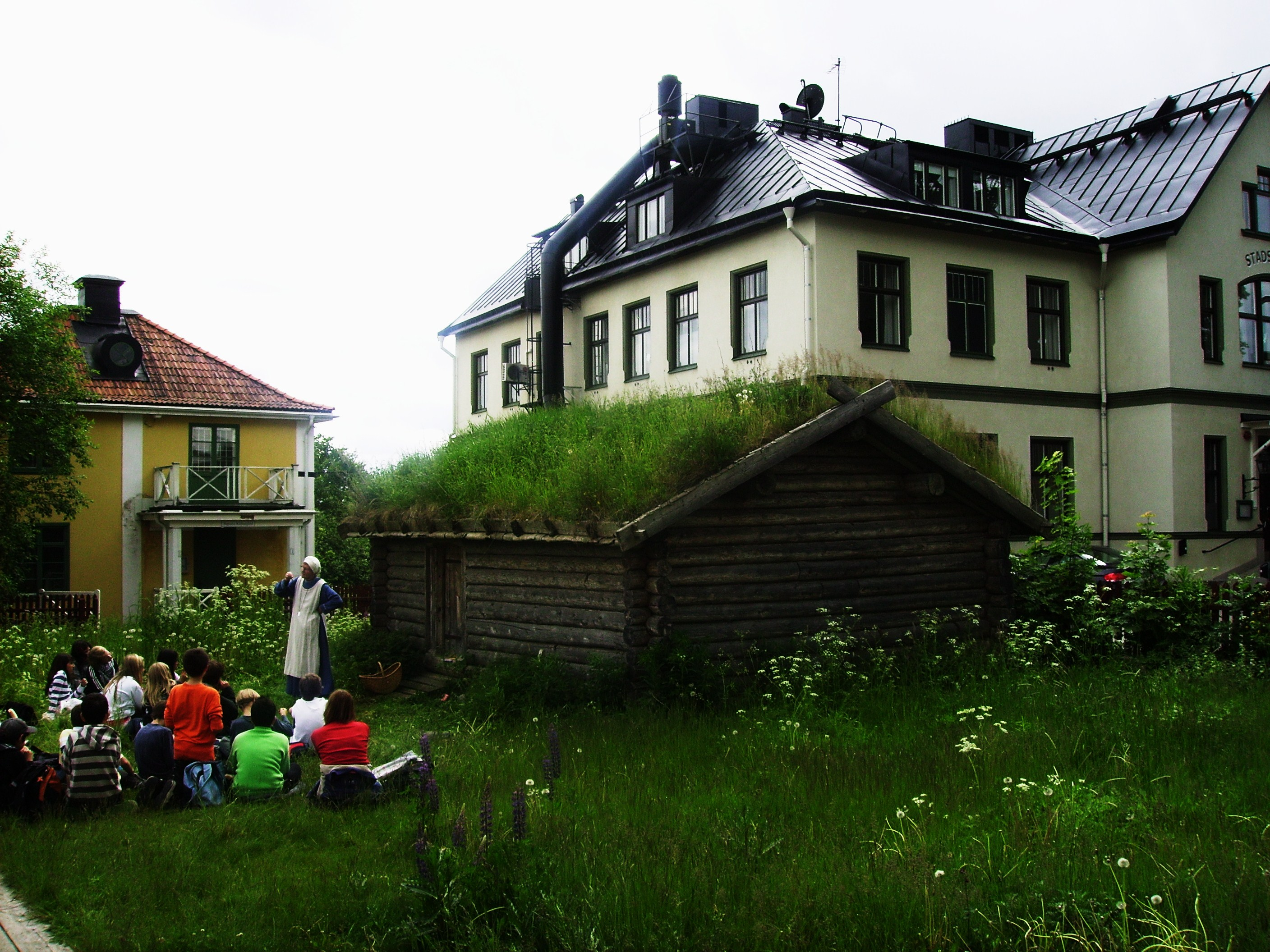 Picture of Olof Skötkonung's mint in Sigtuna